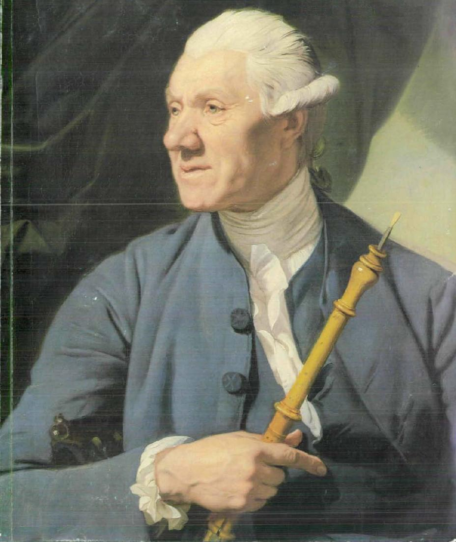 The Oboe Player: portrait sttributted to Johann Zoffany (Smith Zollege Museum of Art, Northampton, Mass.)